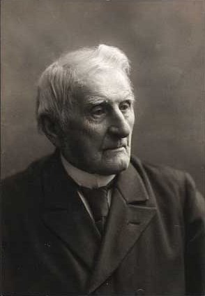 Peter Skau (1825-1917), Danish farmer and politician